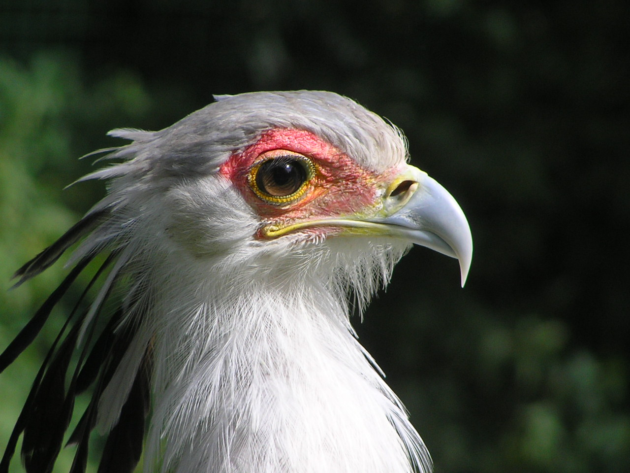 A Secretary Bird (Satirraius serpentarius)